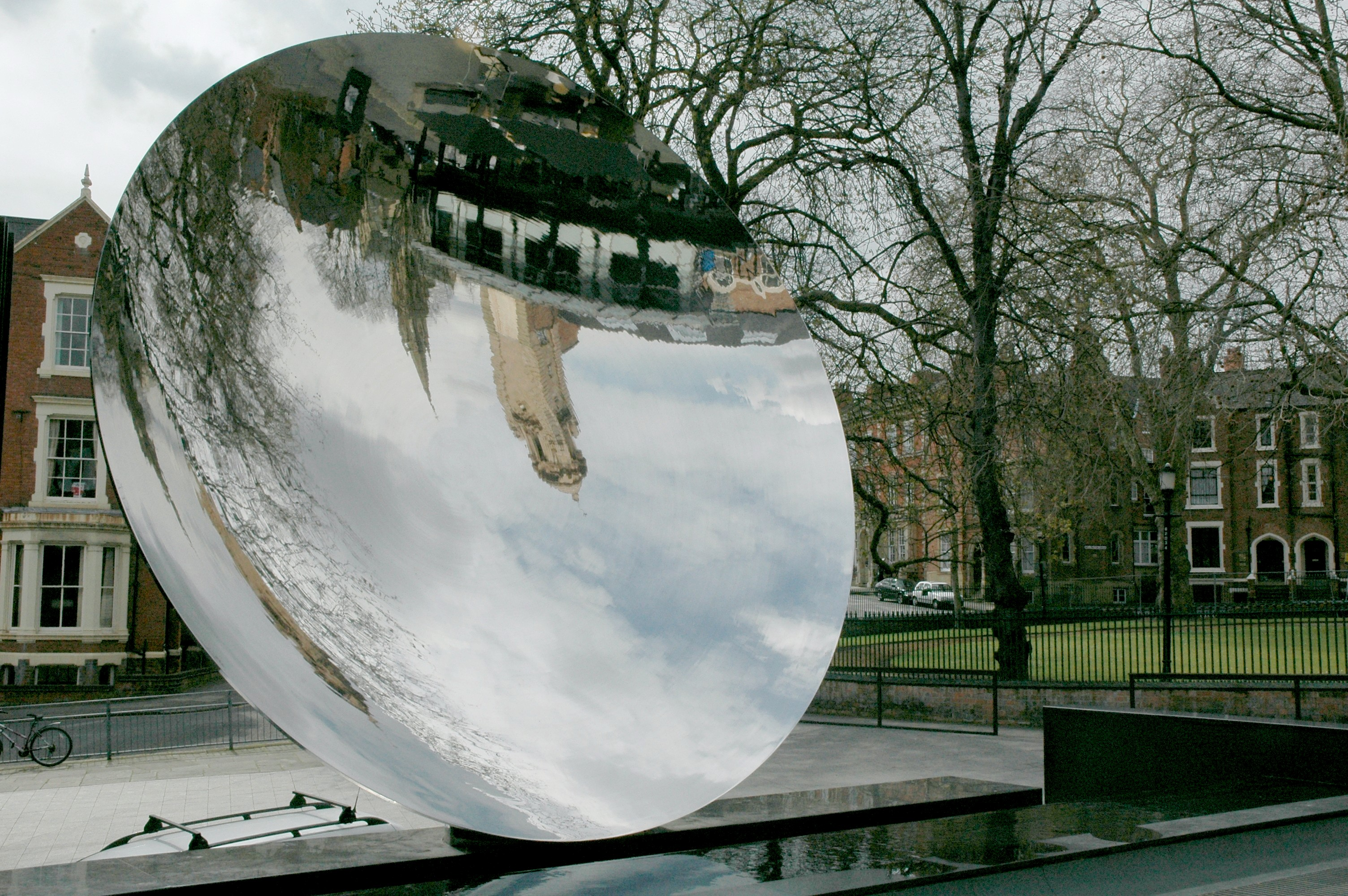 Sky Mirror, a sculpture by Anish Kapoor.